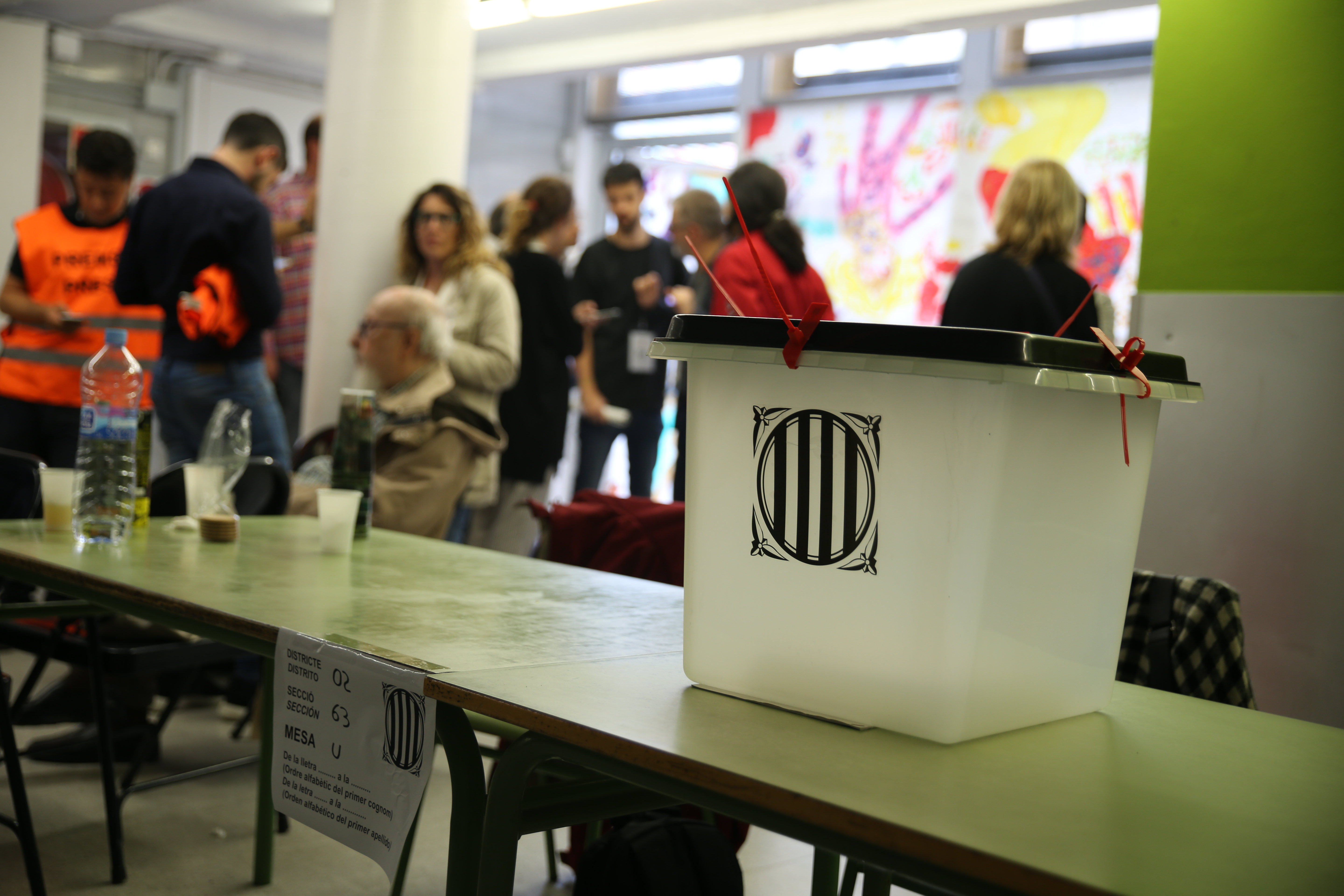 01.10.2017 Referendum ilegal 1-OCT Wikipedia: Catalan independence referendum, 2017 See also category: Catalan independence referendum, 2017.